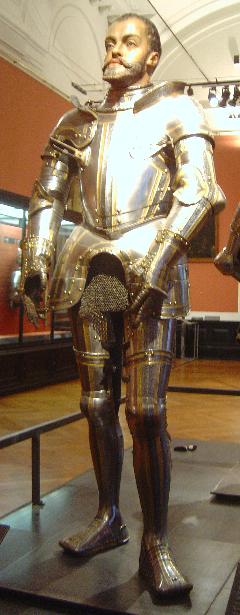 Philip II of Spain: armor, and reconstitution of posture